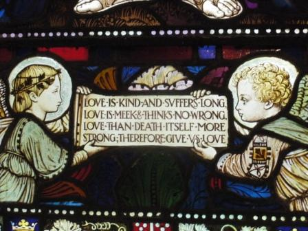 Detail from Lord and Lady Nunburnholme memorial window, St James Church, Warter, East Riding of Yorkshire, England. Dates from 1908-1910 and by R.Anning-Bell and A.Dix. Text from hymn by Christopher Wordsworth: Love is kind, and suffers long Love is meek, and thinks no wrong, Love than death itself more strong; Therefore, give us Love.